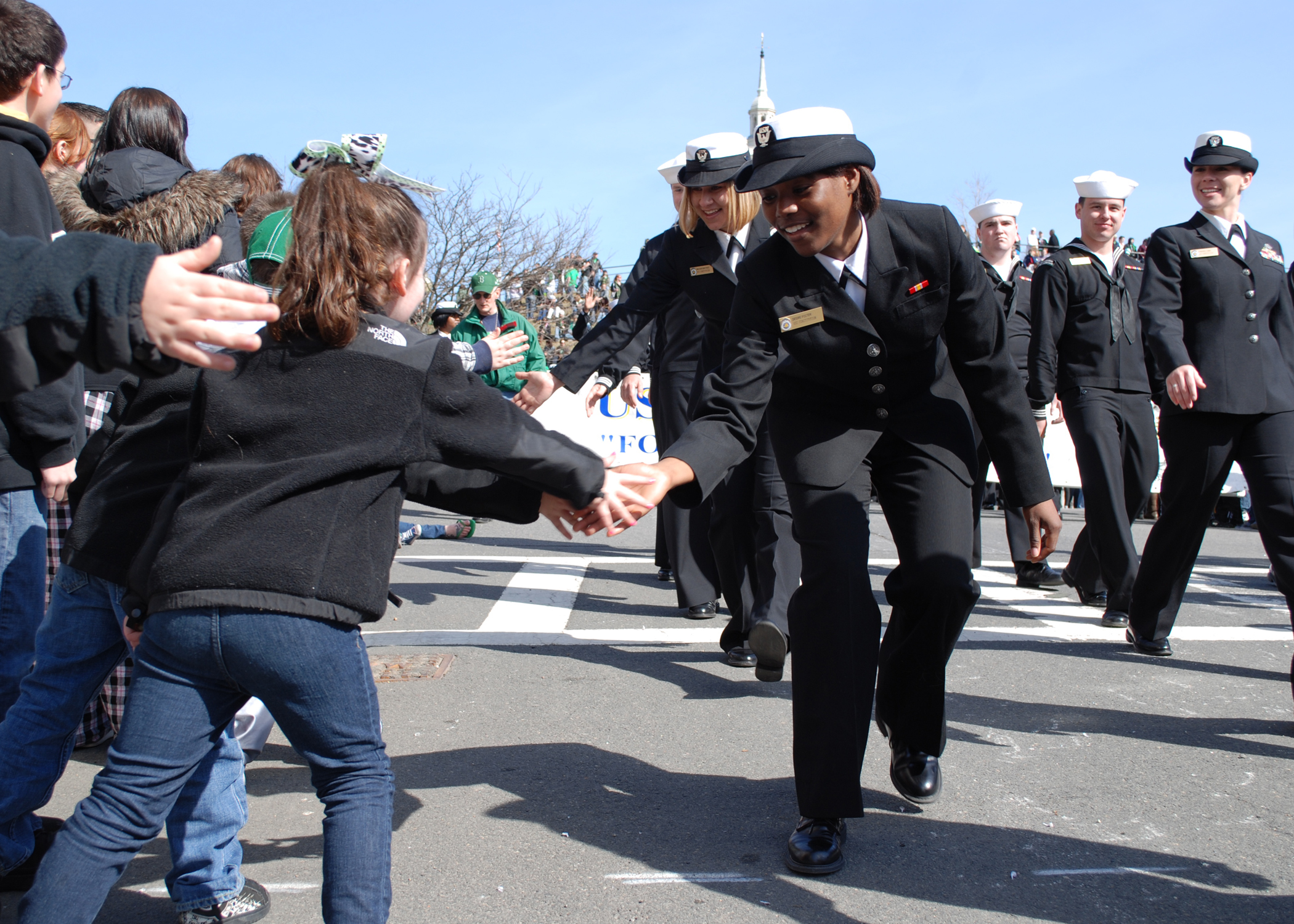 BOSTON (March 20, 2011) Seaman Recruit Deidre Foster, assigned to USS Constitution, gives a high-five to a child while marching in the 110th annual Boston St. Patrick's Day parade. Sailors assigned to the guided-missile destroyer USS Ross (DDG 71) and Naval Operational Support Center Quincy also marched in the parade. (U.S. Navy photo by Mass Communication Specialist 1st Class Frank Neely/Released)